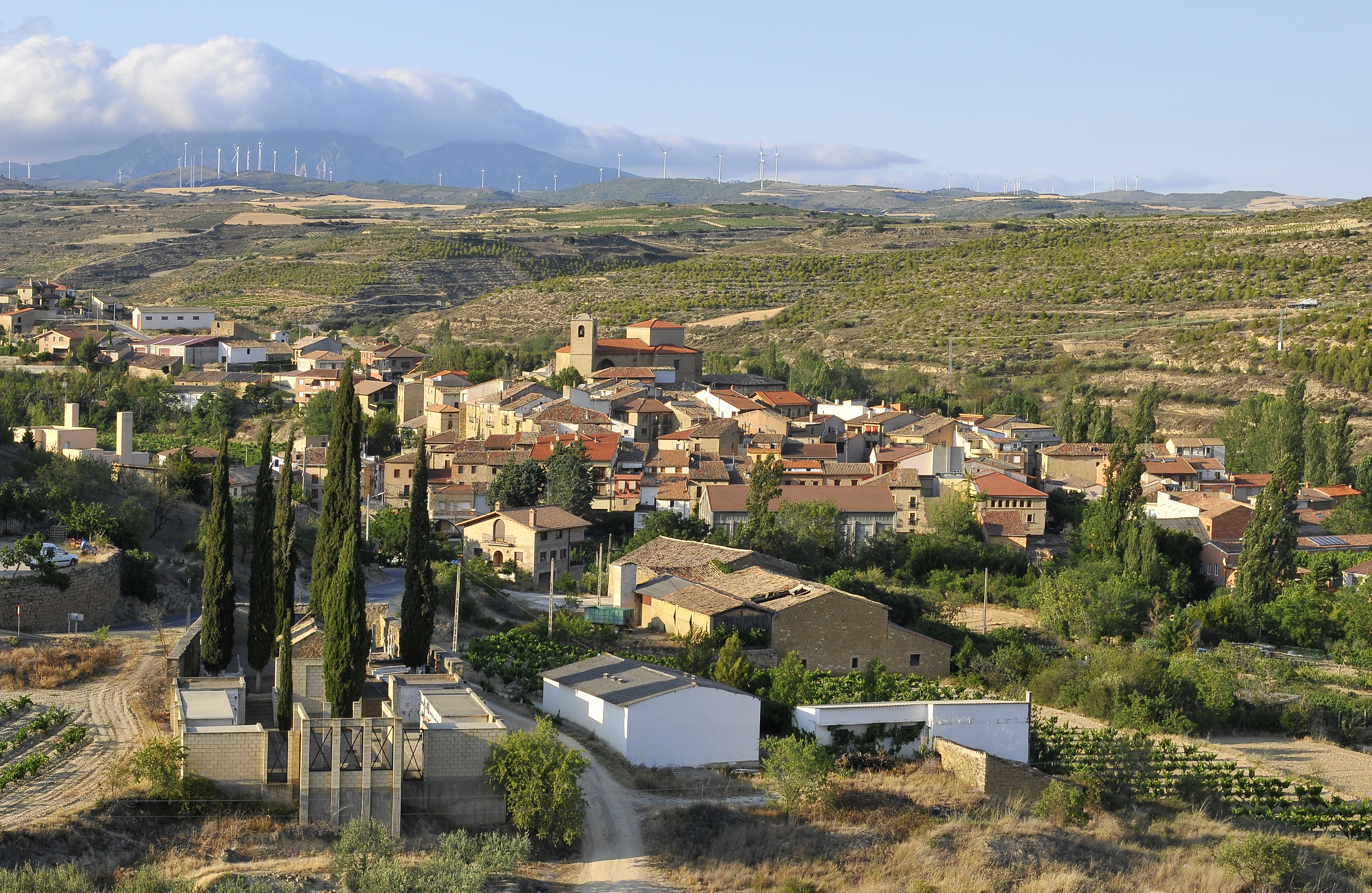 The village and its surroundings. Moreda, Álava-Araba, Basque Country, Spain